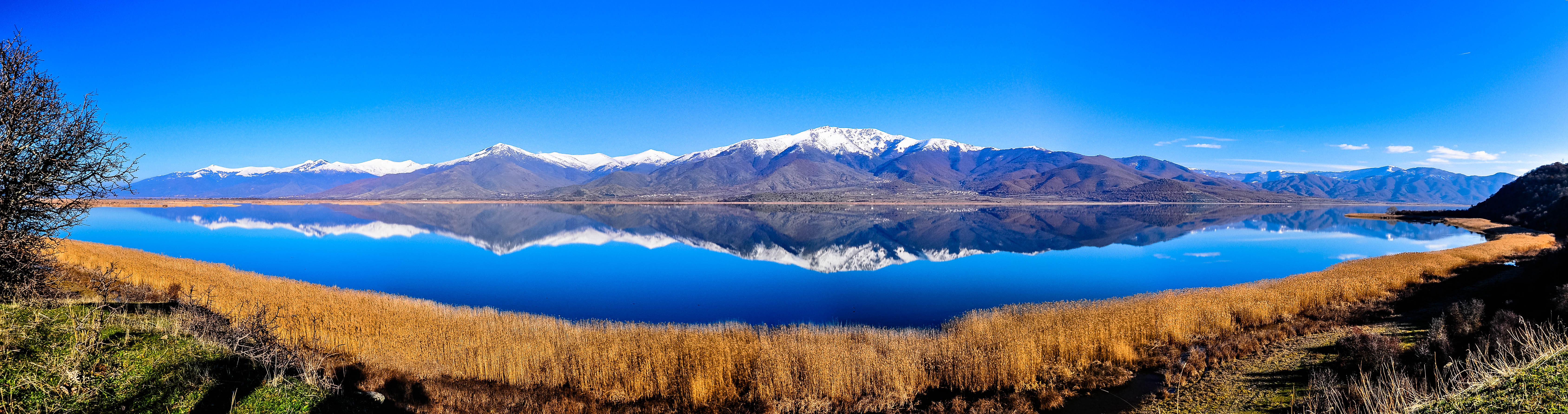 Prespa Lake panorama This is a photography of Natura 2000 protected area with ID GR1340001